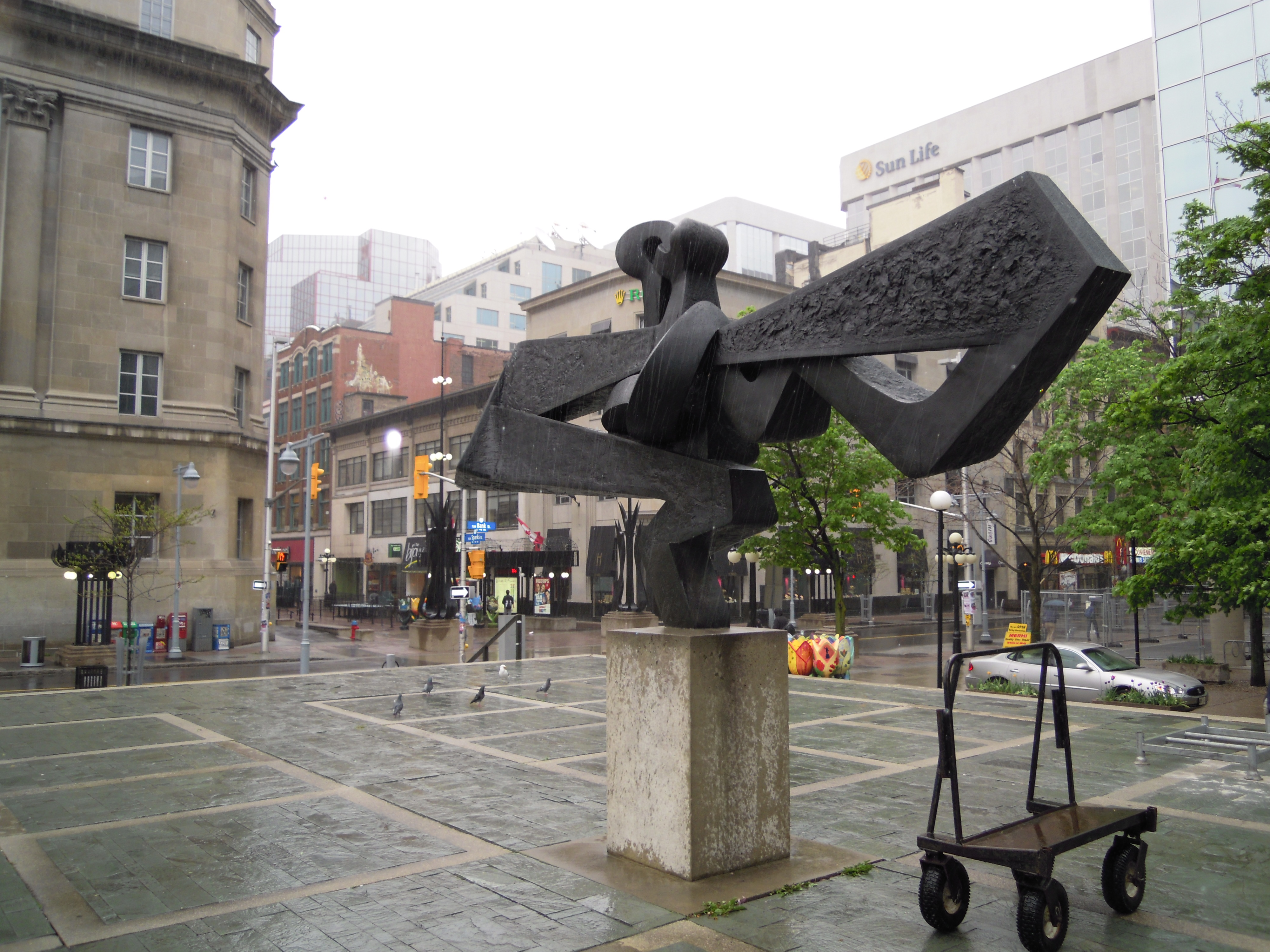 "Flight" (1966) by Sorel Etrog, located in the Bank of Canada plaza at Wellington and Bank Streets, Ottawa, Canada. The sculpture was commissioned by the Pavilion of Canada, Expo 67, and is part of the Bank of Canada collection.